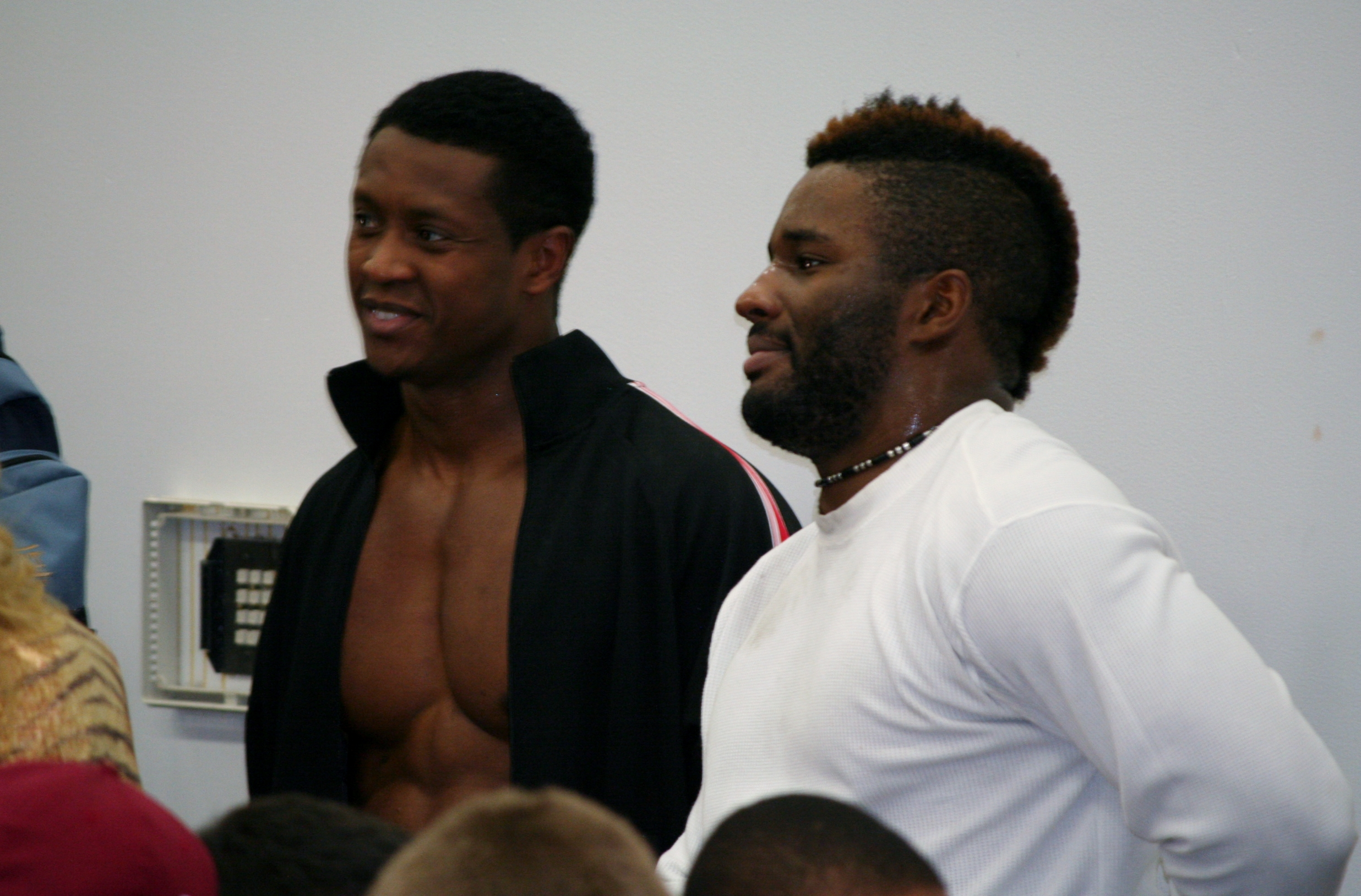 Caprice Coleman (left) & Cedric Alexander (right) at Wrestlecade in Winston-Salem, North Carolina in November 2011.